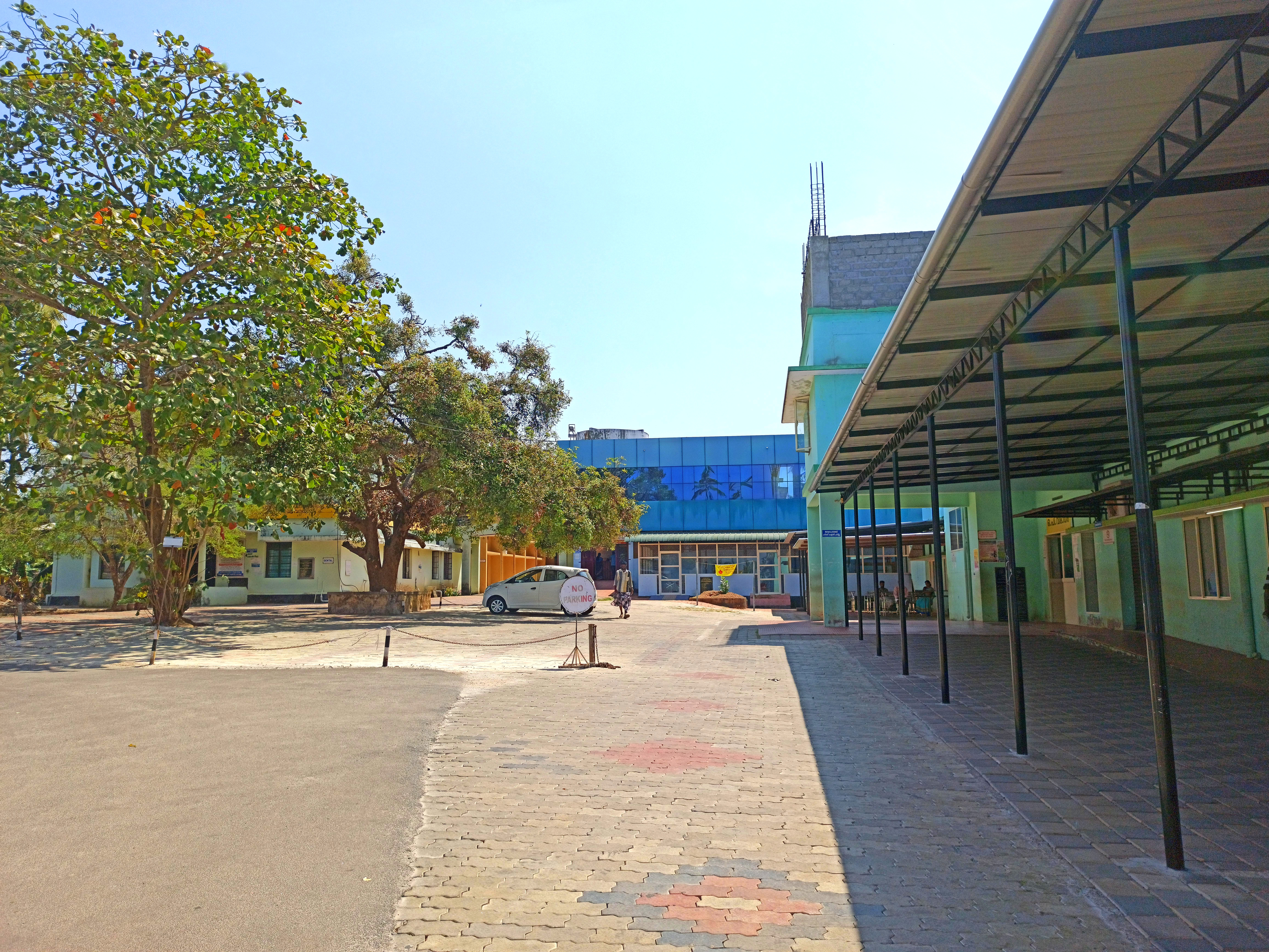 Ramarao Memorial Govt. Taluk Hospital in Paravur is the only Taluk hospital located in Chathannoor assembly constituency.